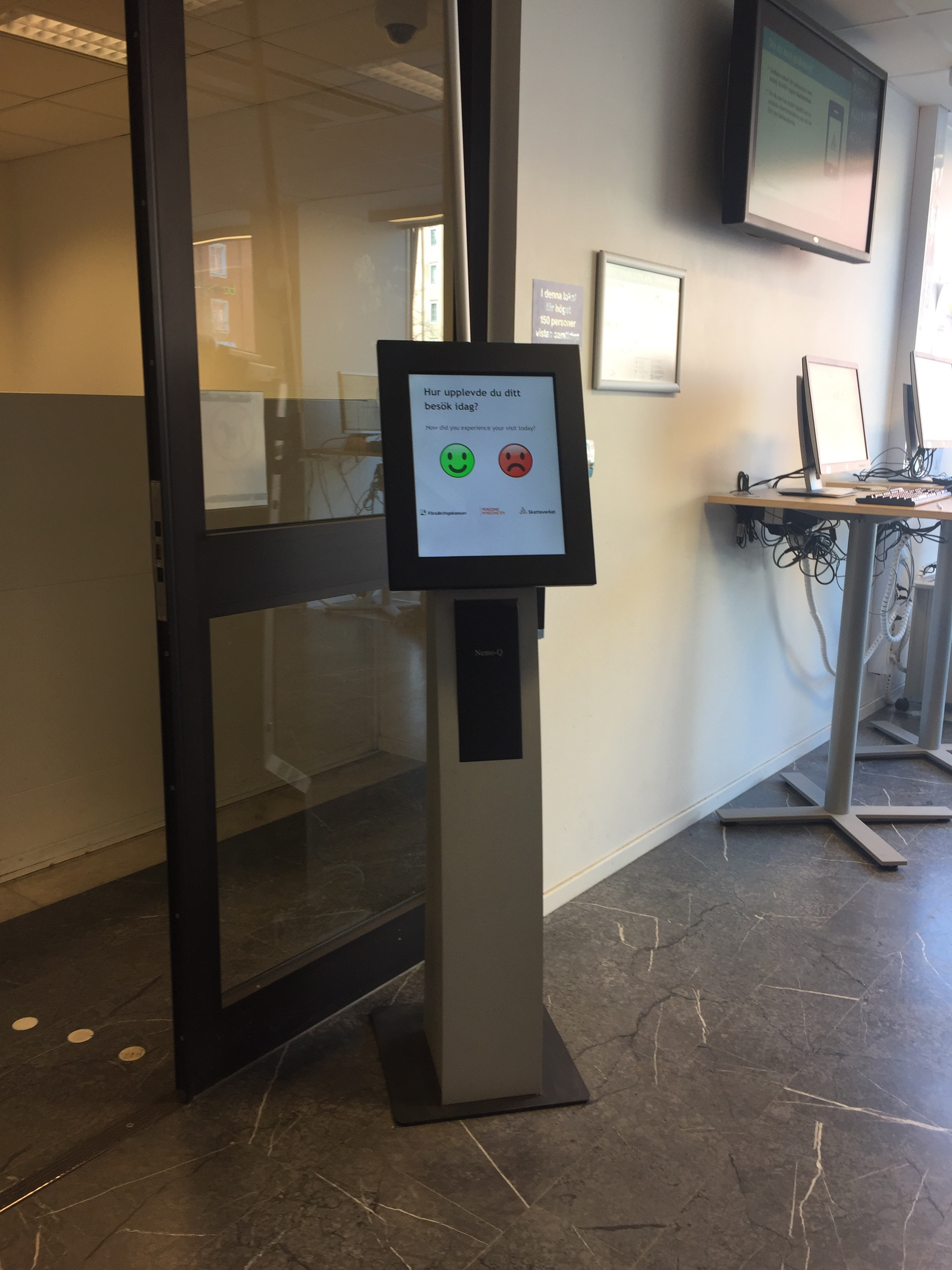 This feedback terminal features a touchscreen instead of feedback buttons.